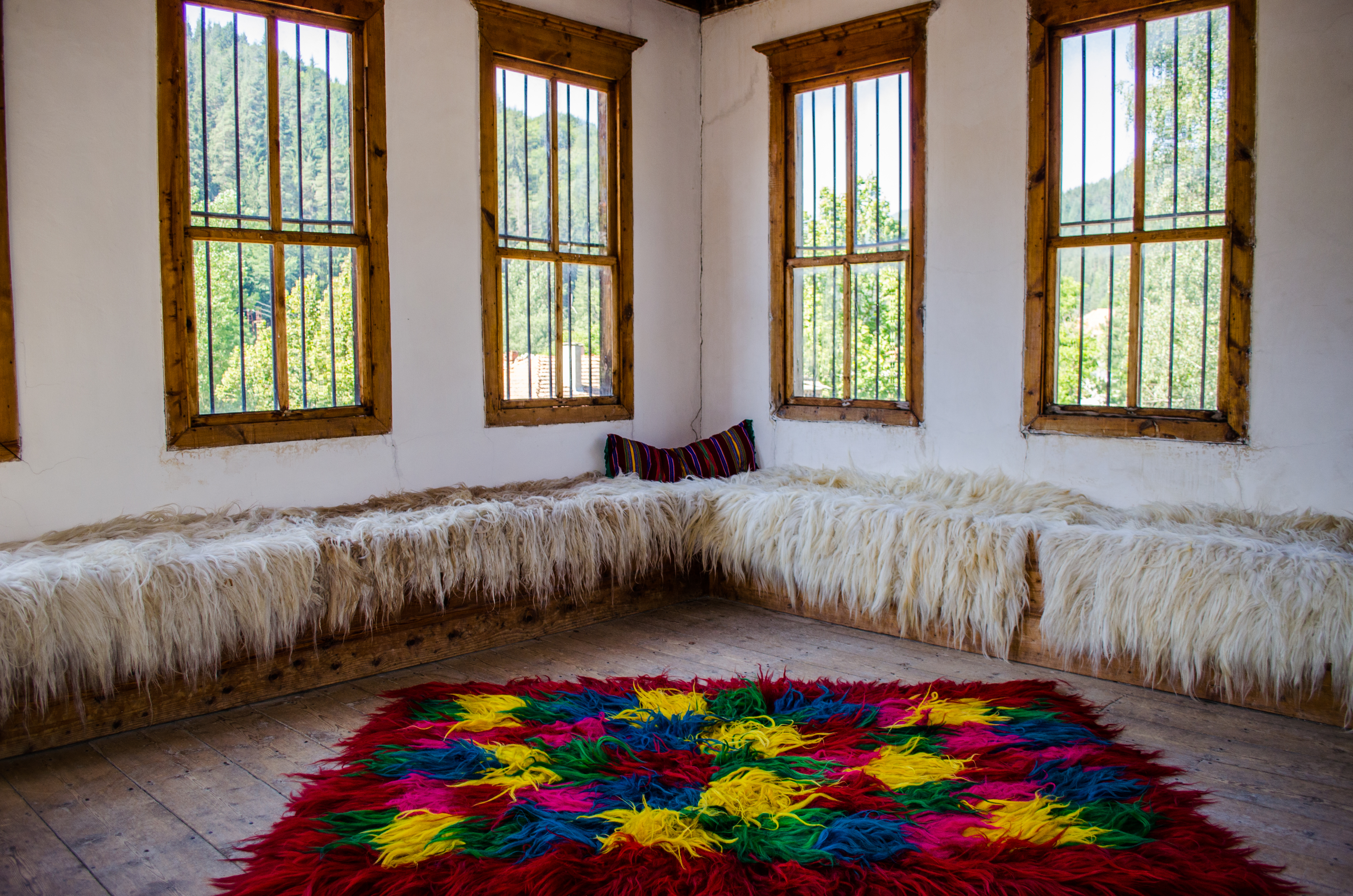 Agushevi konatsi